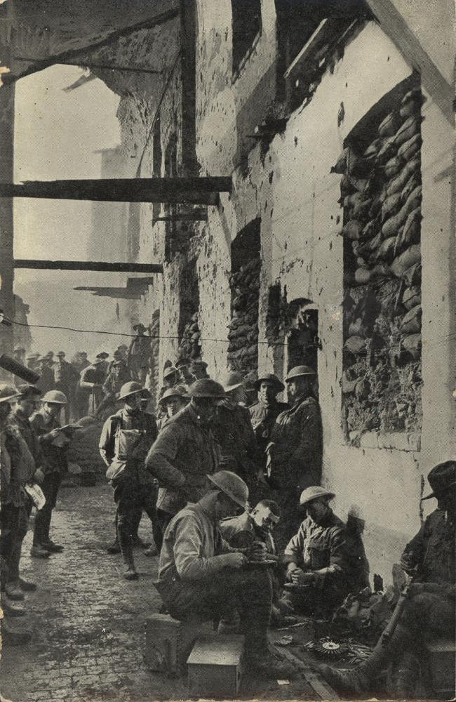 Australian troops amid the devastation of war. A scene at Ypres (Ieper), Belgium, ca. 1917. Part of Our boys at the front series of postcards. From official photographs by special permission of the Department of Defence.